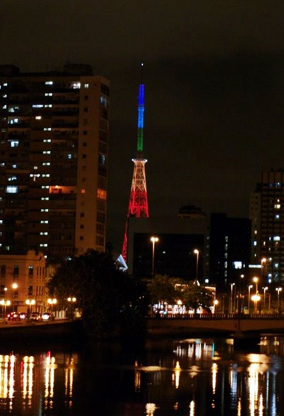 Aurora Street - Recife, Pernambuco, Brazil